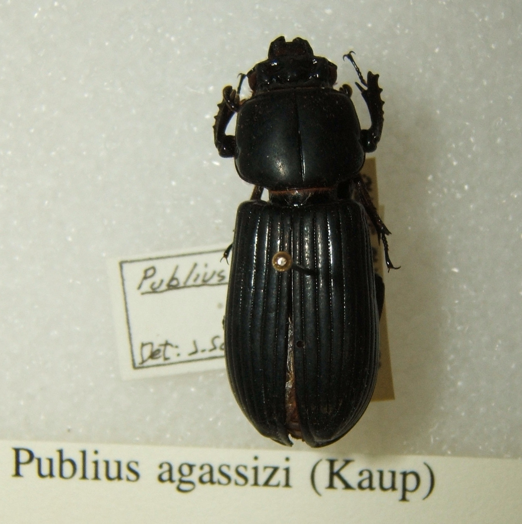 Publius agassizi adult taken by Shawn Hanrahan at the Texas A&M University Insect Collection in College Station, Texas.